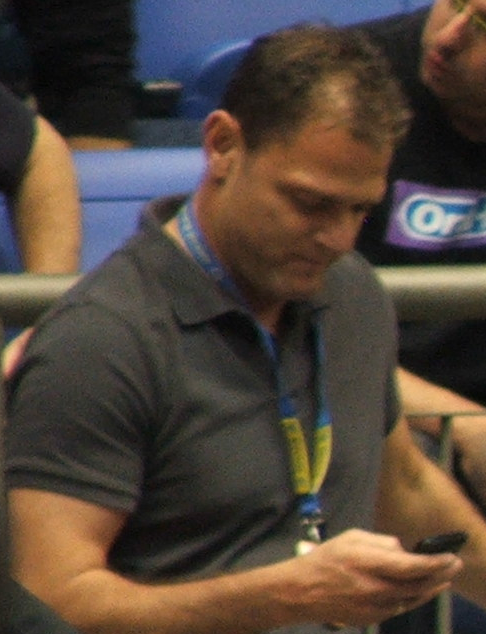 Maccabi Tel Aviv VS. Barak Netanya 31/10/11